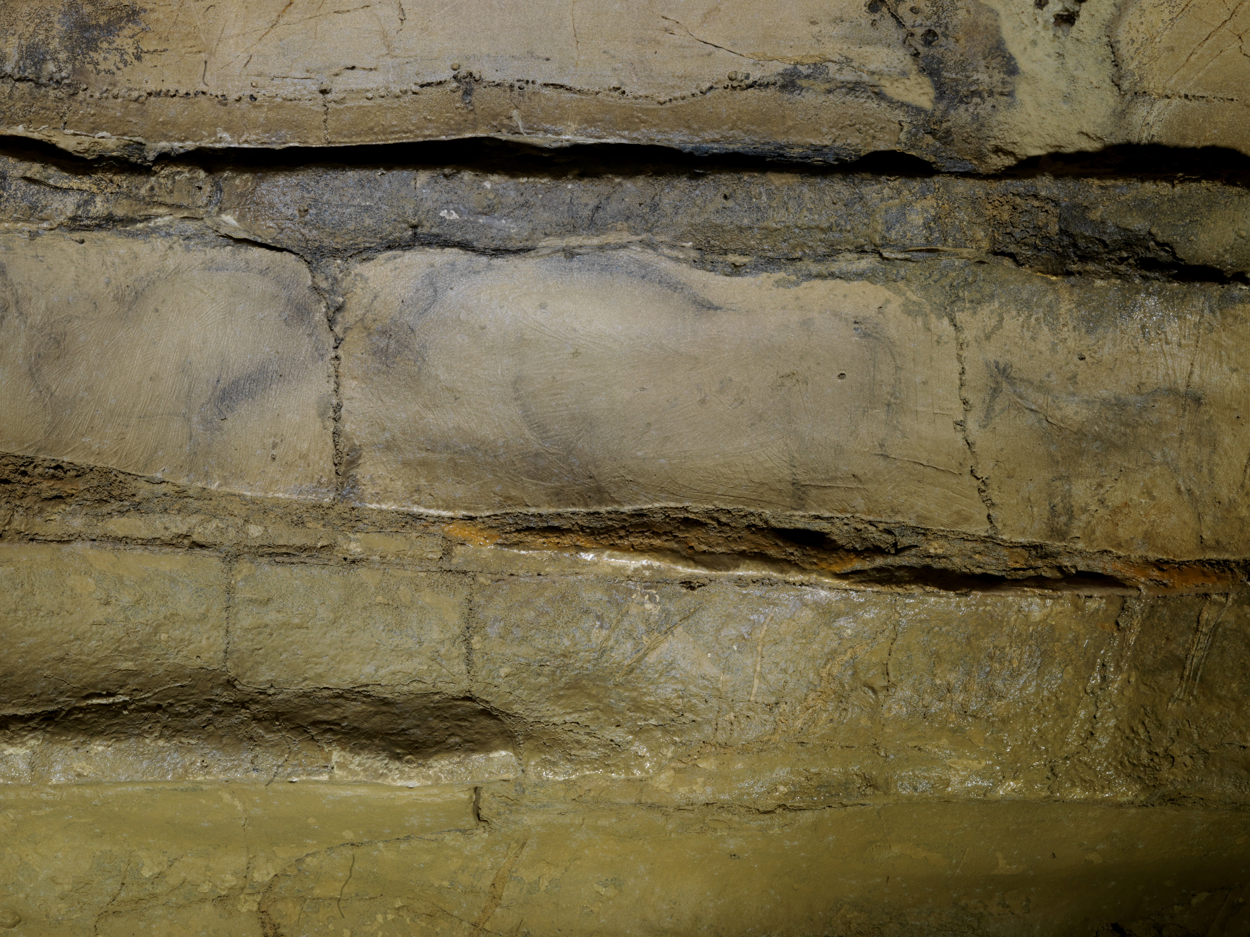 Two faced bison. On your right there is a goat.